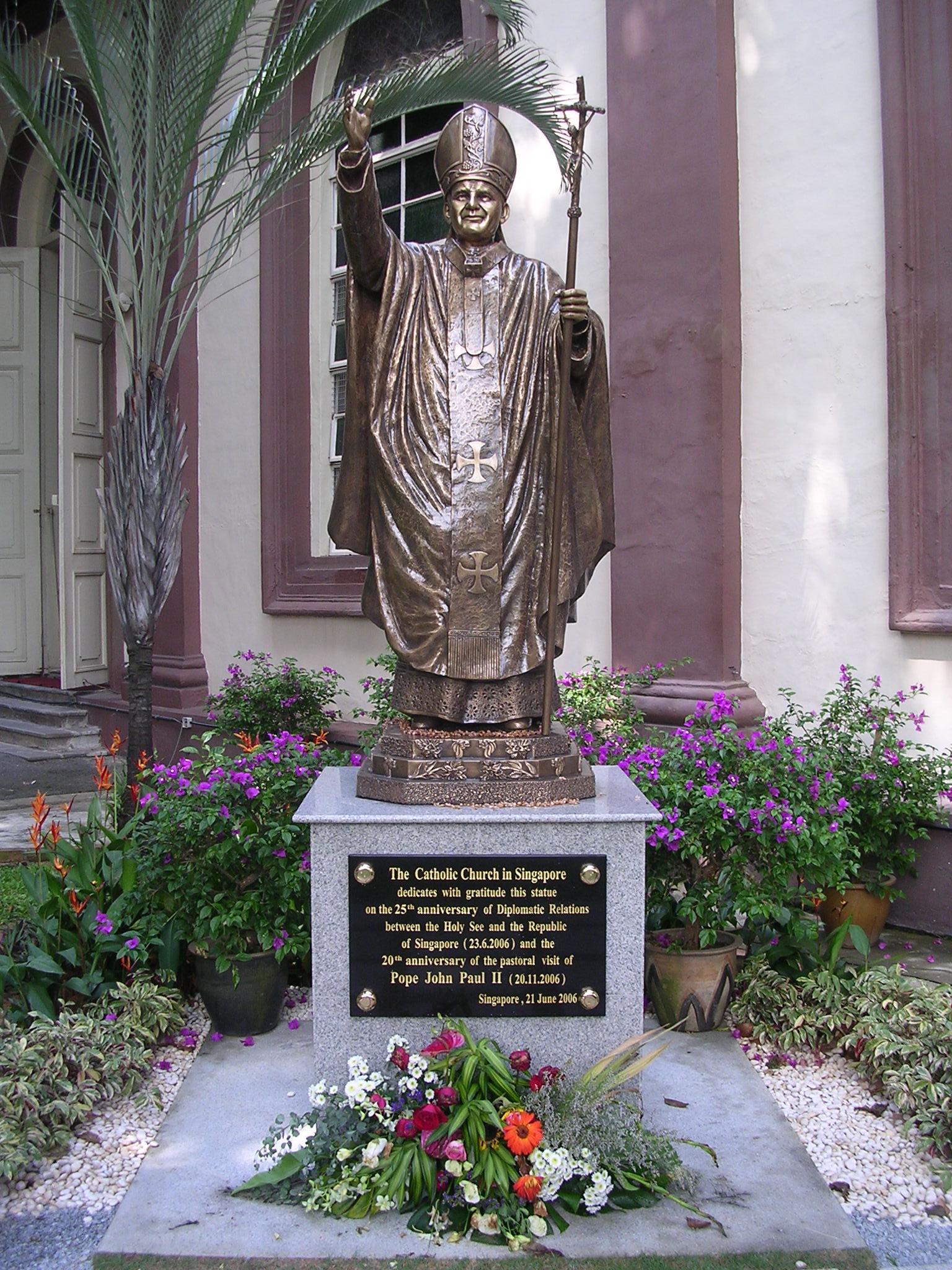 A statue of Pope John Paul II in the grounds of the Cathedral of the Good Shepherd, Singapore.